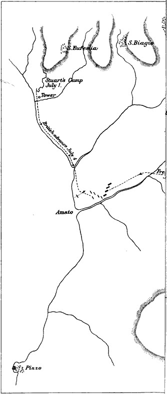 Map of the Battle of Maida showing the coast from Santa Eufemia to Pizzo and the movements of both armies to the battlefield.